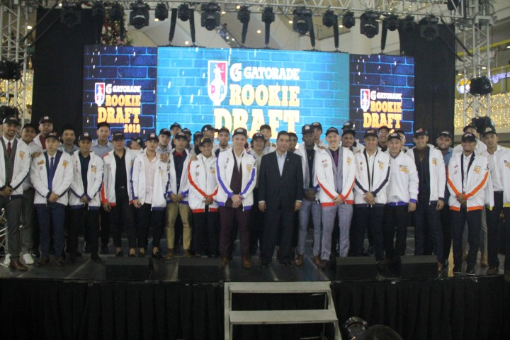 Philippine Basketball Association (PBA) Commissioner Willy Marcial (wearing a suit) poses with the players, who were selected during the 2018 PBA Rookie Draft at the Robinson's Place Manila on Sunday (December 16, 2018).